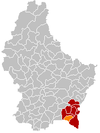 Own edit of Kanton RemichLocatie.png